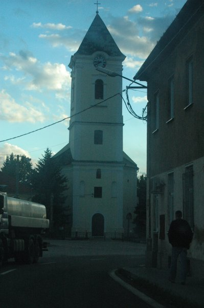 Oslany, church